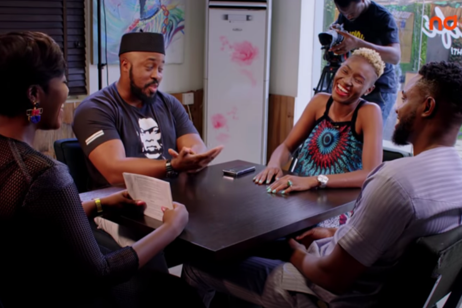 NdaniRealTalk S2E3 Expectations & Entitlement featuring Nicole Asinugo, Adenike Oyetunde, Shola Thompson and Valentine Ohu